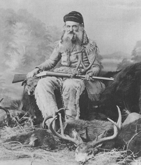 Stephen Meek; used with permission Oregon Historical Society